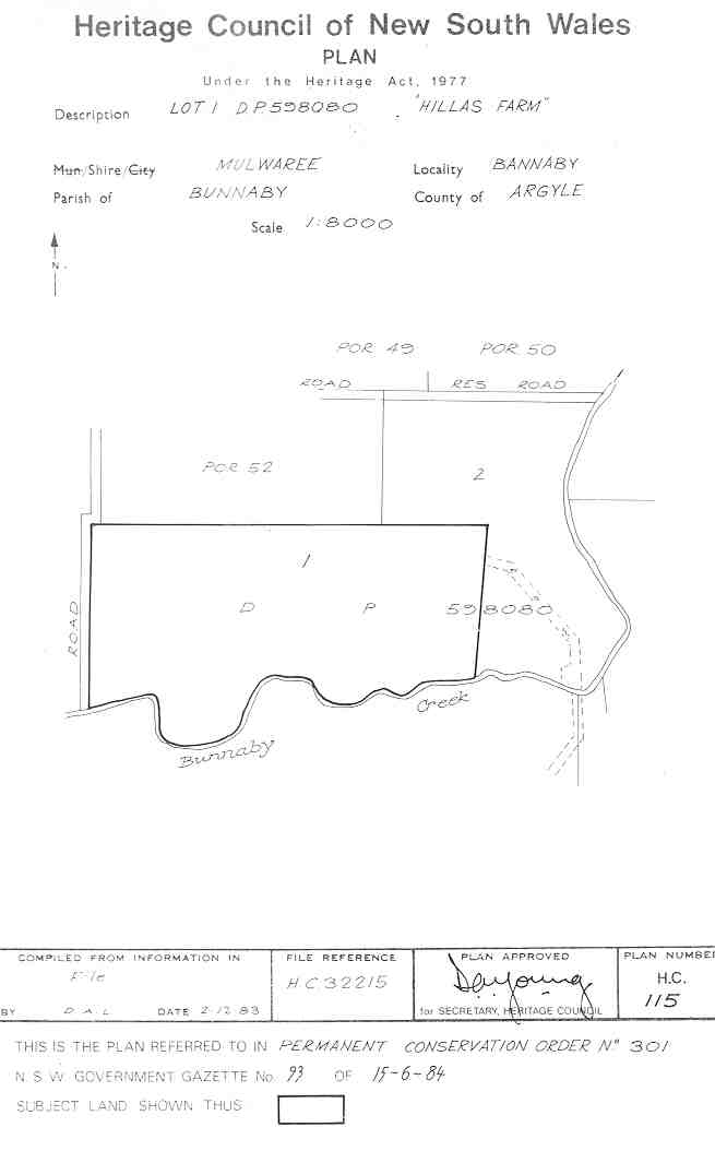 Hillas Farm Homestead: PCO Plan Number 301